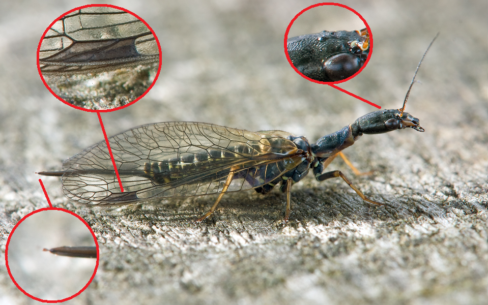 Female Snakefly (Phaeostigma major) Snakeflies are a group of insects in the order Raphidioptera, consisting of about 150 species.